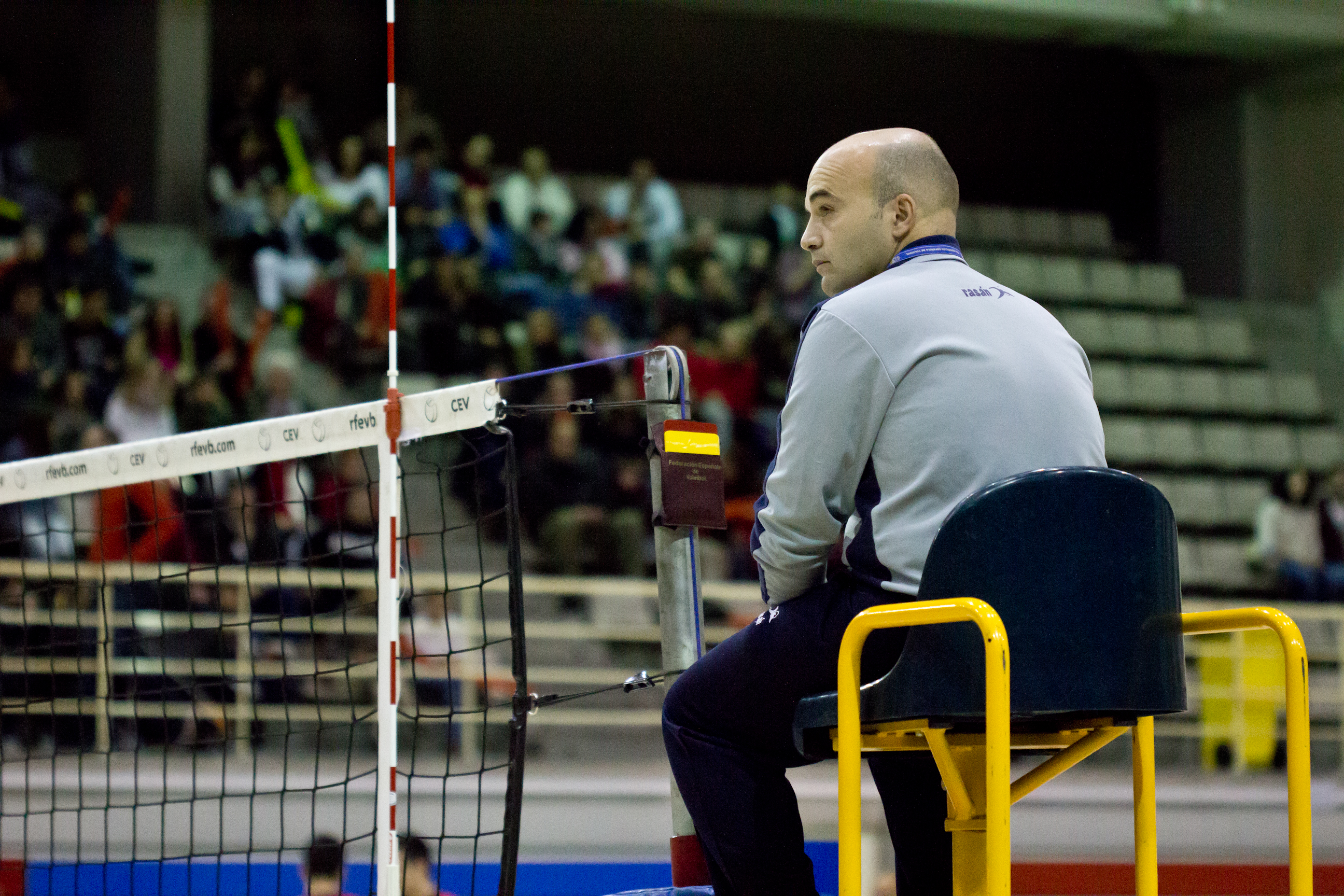 Main referee of a volleyball game.